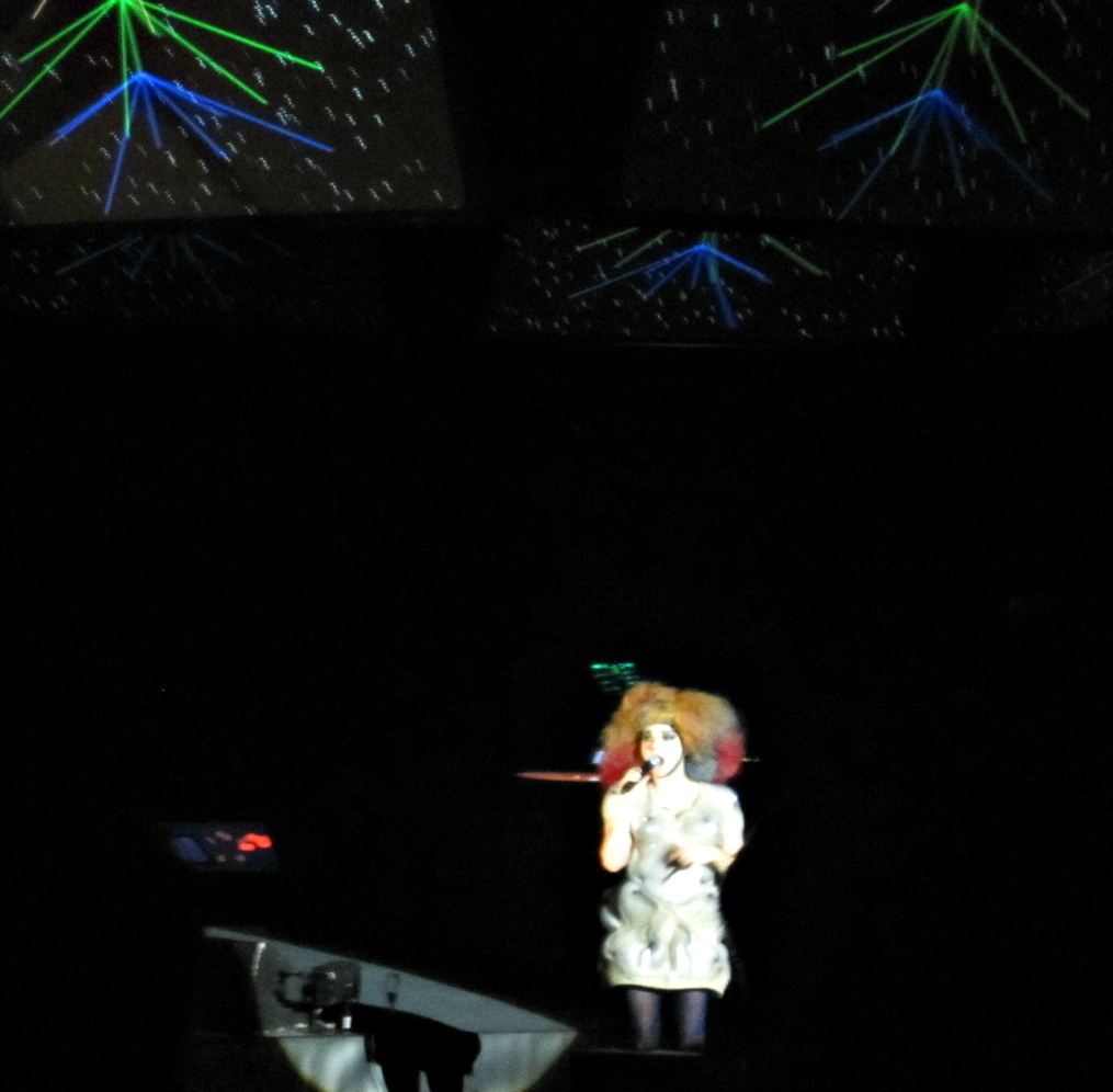 Björk performing "Solstice" live at the Cirque en Chantier on February 24, 2013.